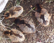 Barnevelder, double-laced, large fowl, chicks